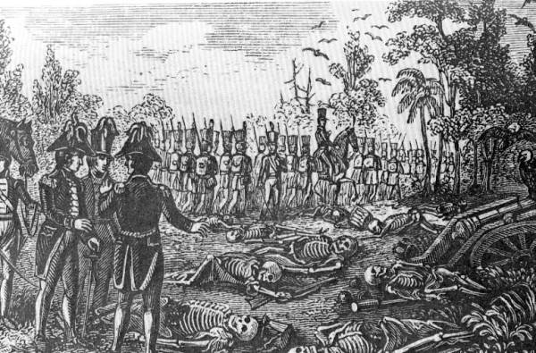 Title[Viewing the demise of Major Dade and his Command] [picture] Publication Date 18??. URL